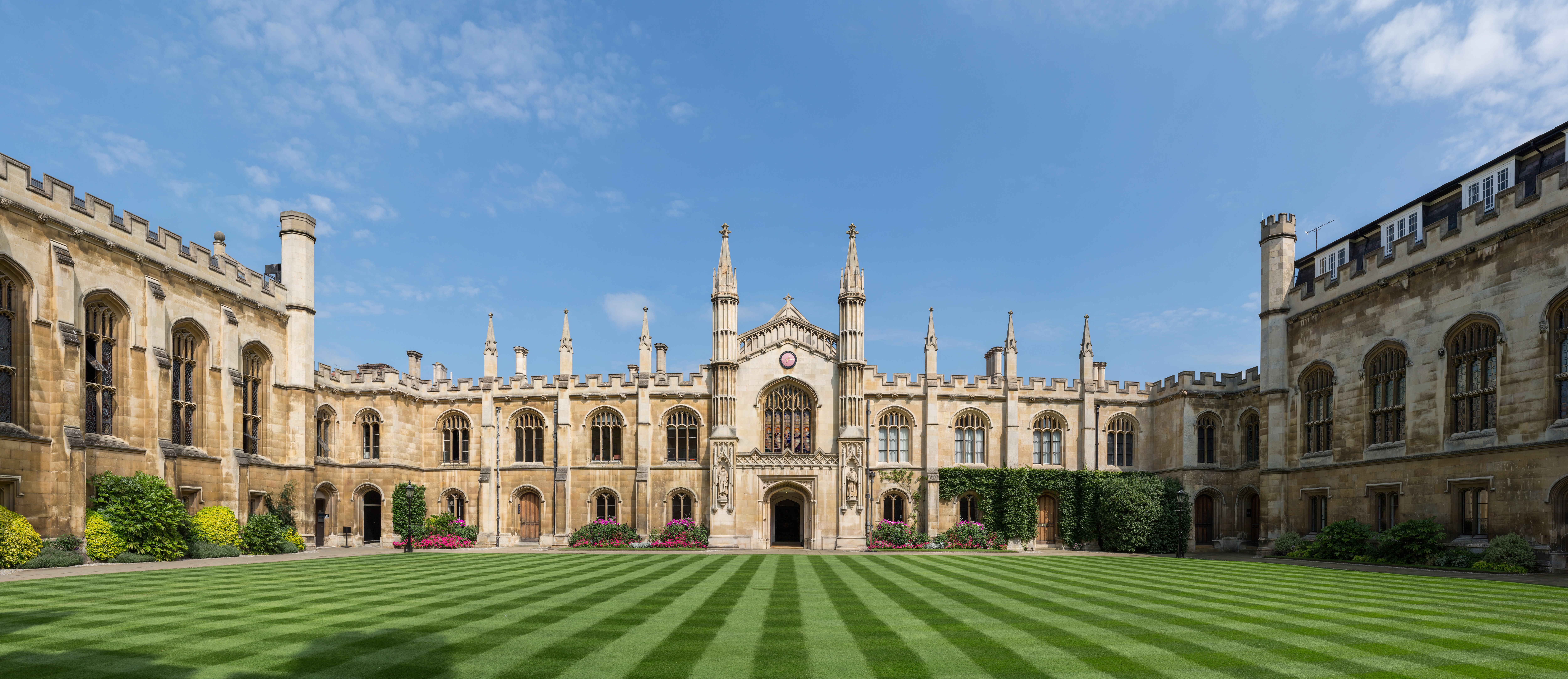 New Court, Corpus Christi College, Cambridge, England.